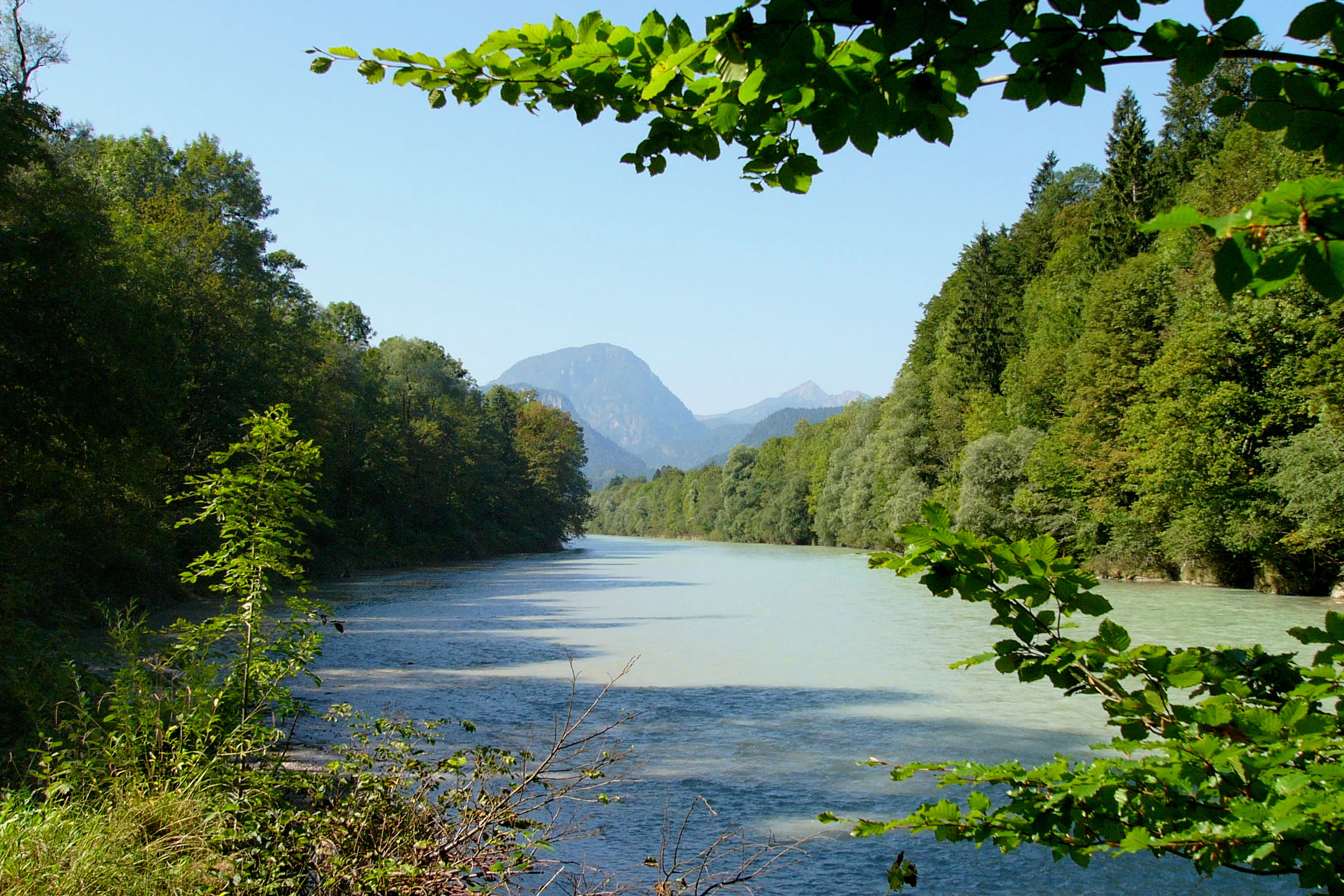 Saalach River, River in Austria and Bavaria